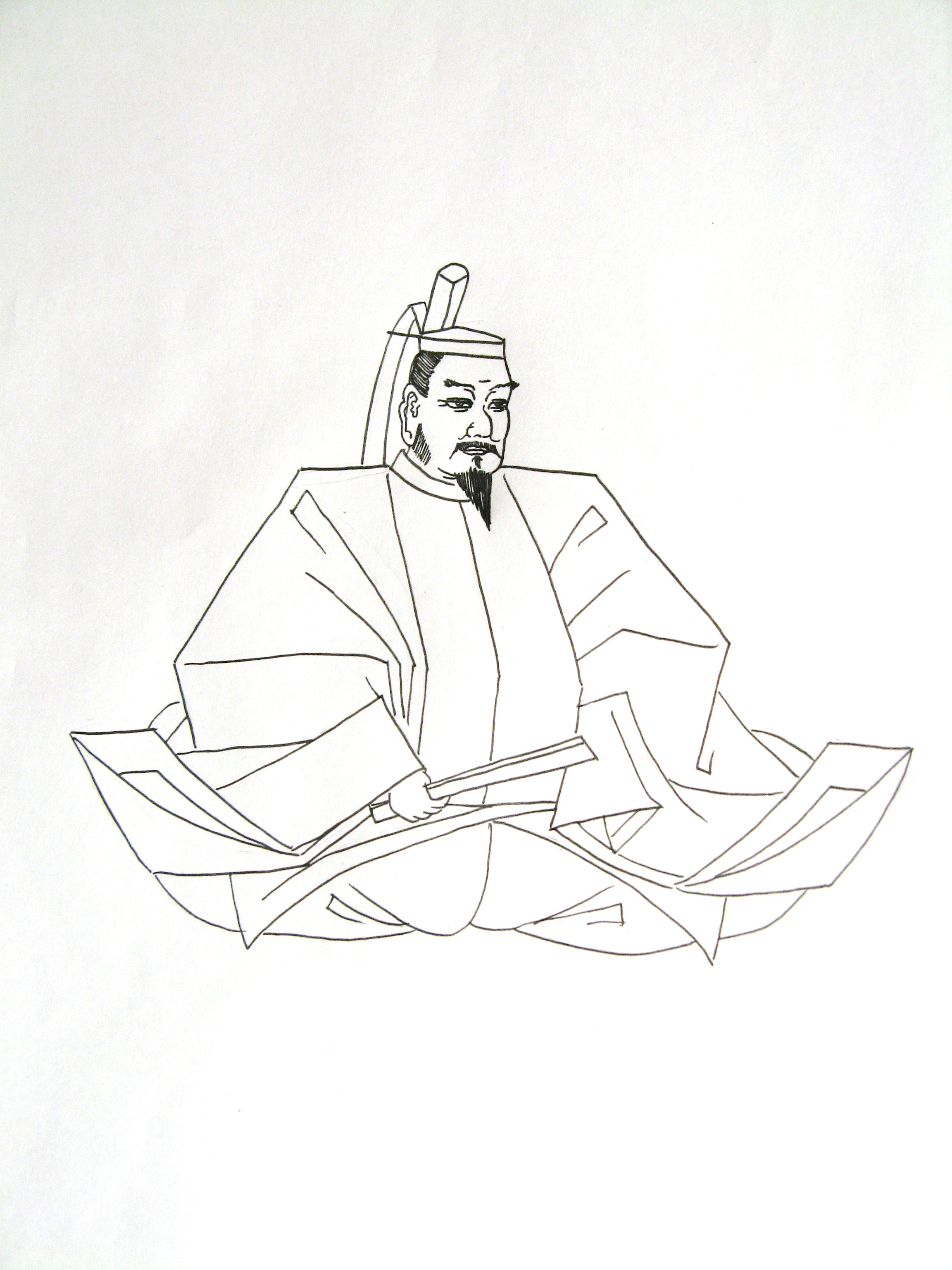 Minamoto Yoshimitsu